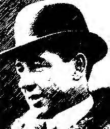 Harry Payne Whitney (1872-1930).